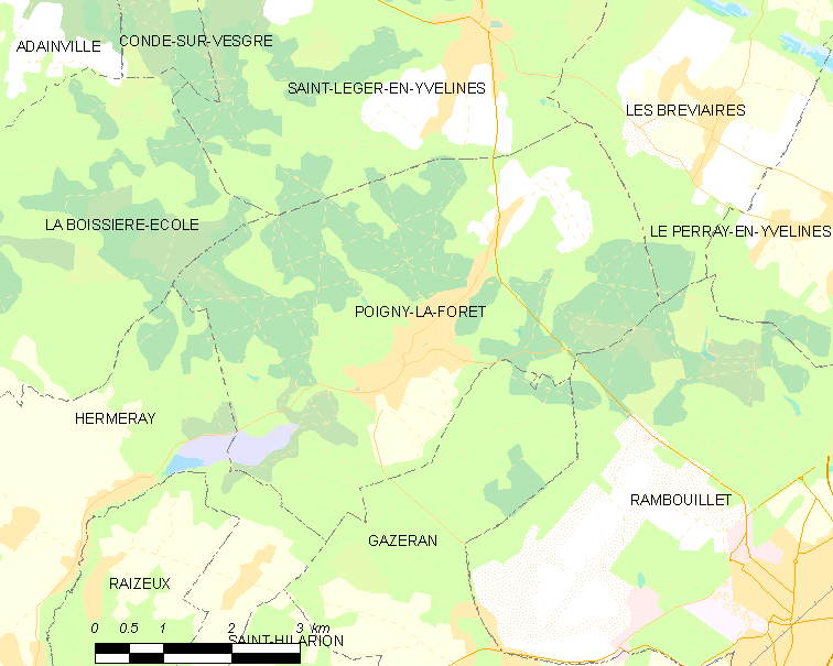 Map of French municipality Poigny-la-Forêt